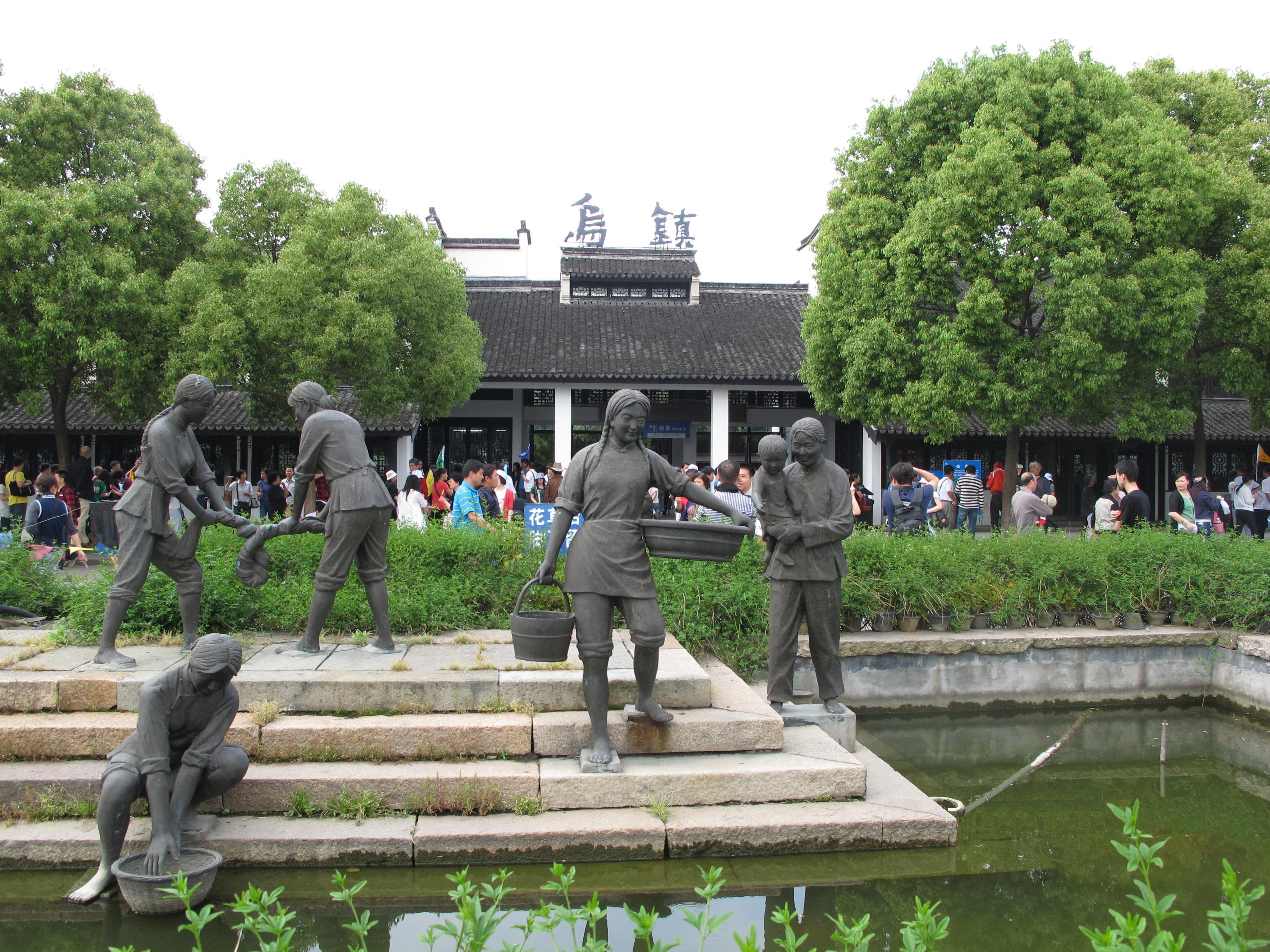 Wuzhen Town in Jiaxing,Zhejiang,China